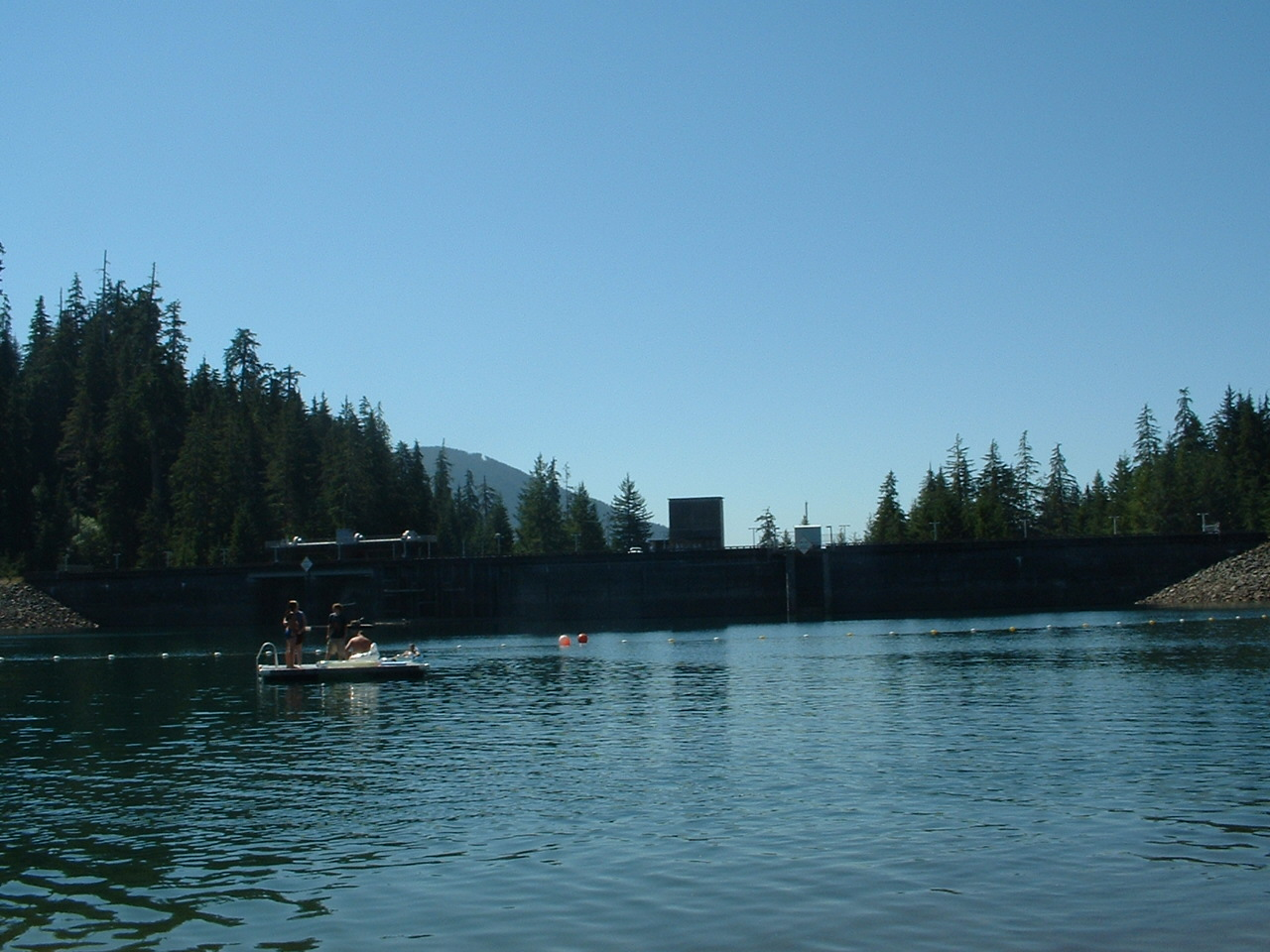 Swimming area above the Wynoochee Dam.